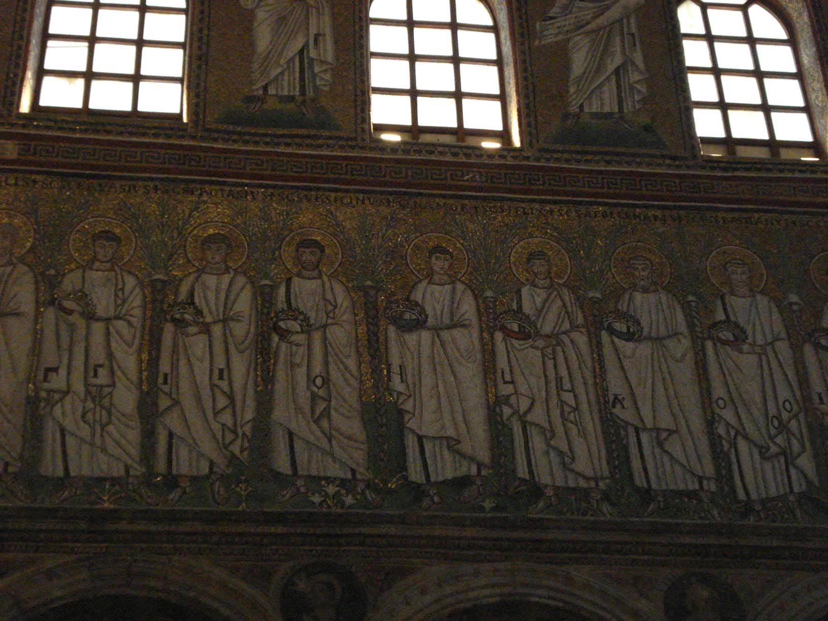 Basilica of Sant'Apollinare Nuovo in Ravenna, Italy: "Procession of the Holy Martyrs". Mosaic of a Ravennate italian-byzantine workshop, completed within 526 AD by the so-called "Master of Sant'Apollinare".